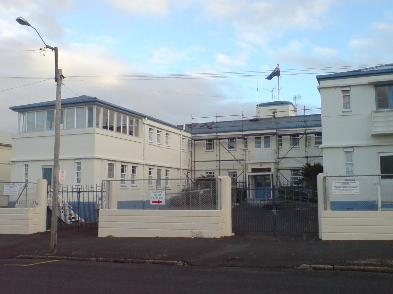 The Devonport Navy Hospital off Calliope Road, Devonport, North Shore City, New Zealand.